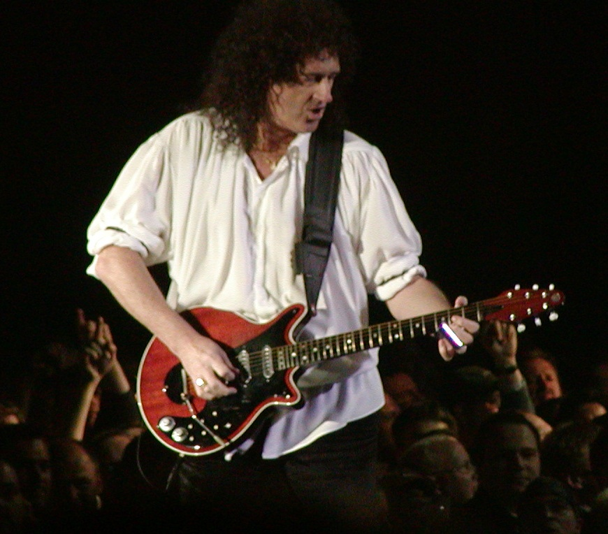 Brian May @ Queen + Paul Rodgers live in Frankfurt, Germany